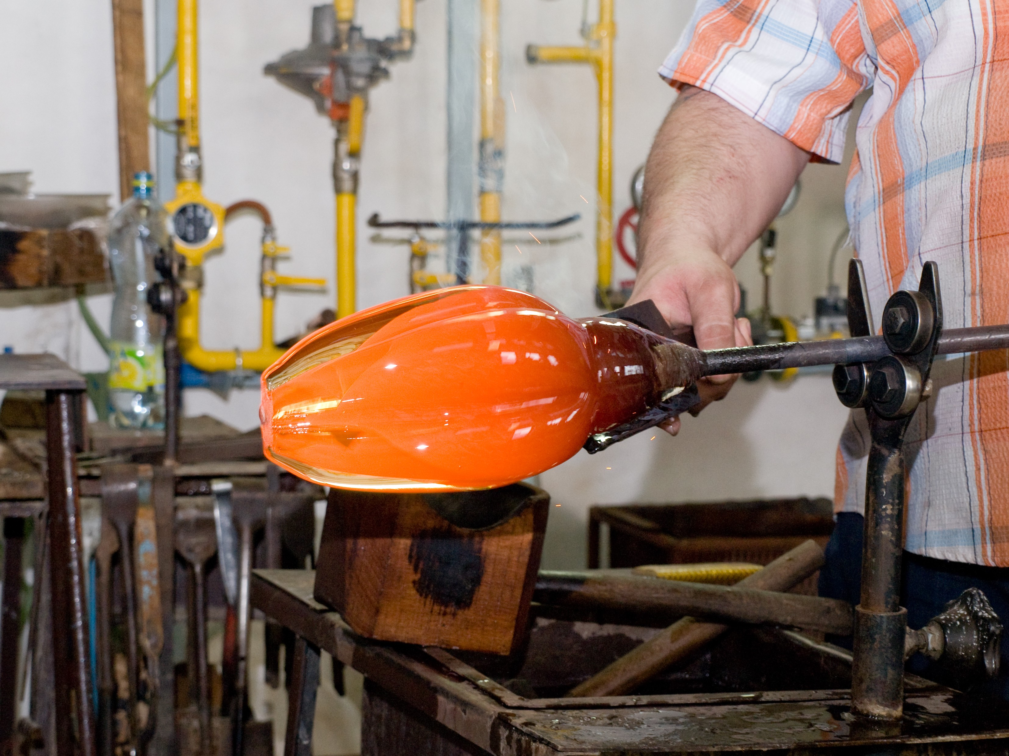 Nenačovice glasswork